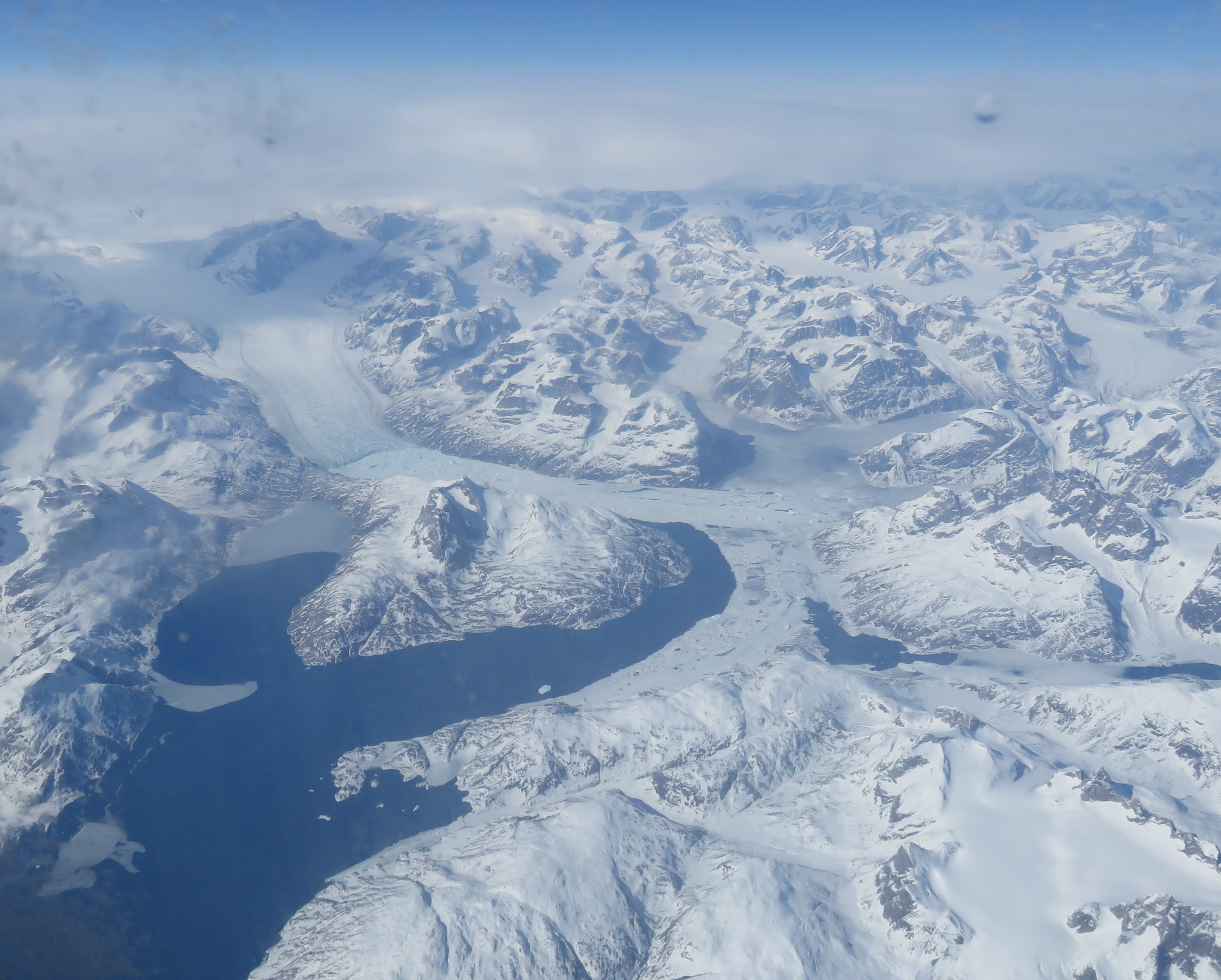 Aerial view of Heimdal Glacier and part of Timmiarmiit Island in Eastern Greenland in 2018